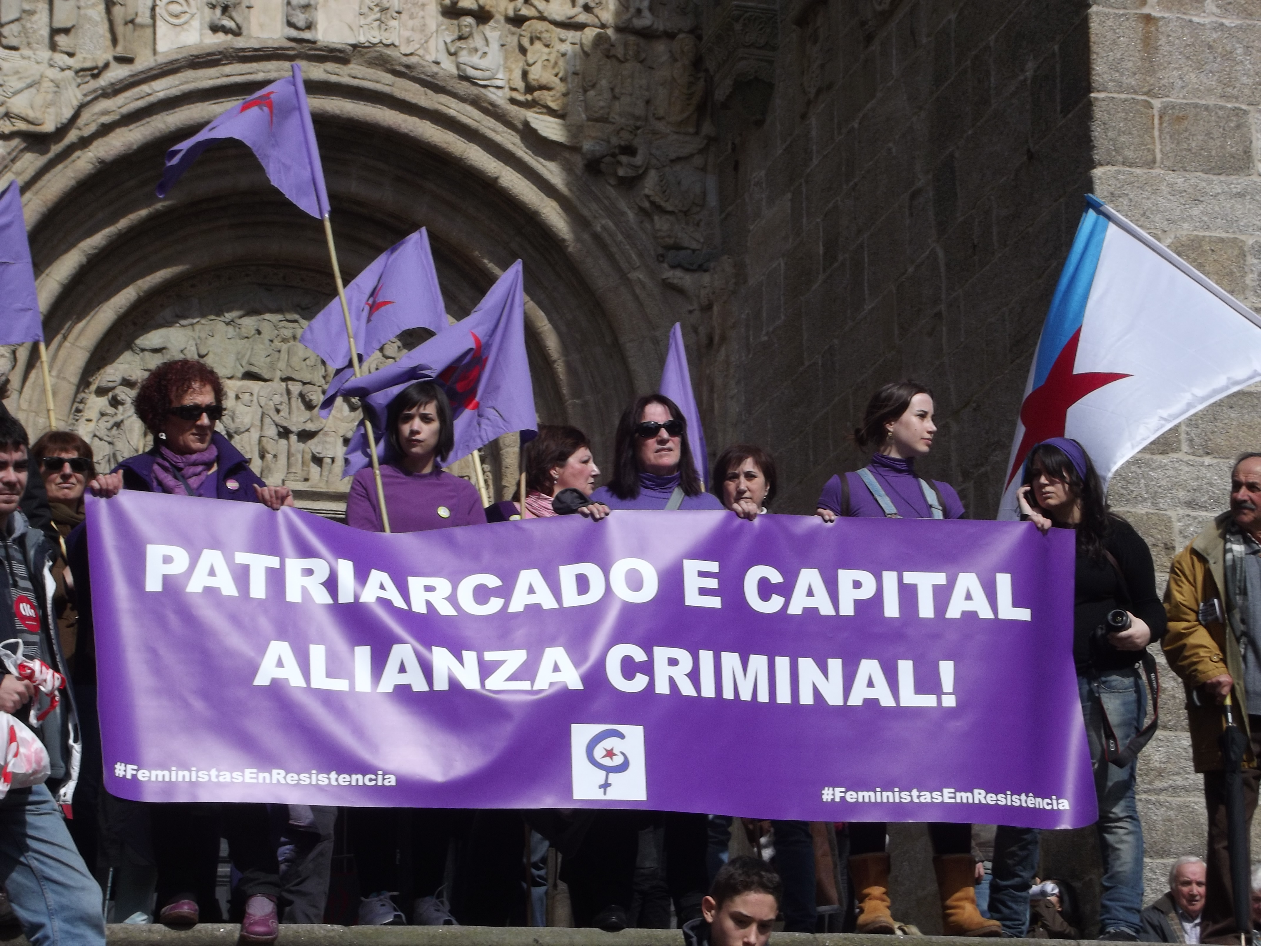 Galician protestors in Spain, Feministas en resistencia (Feminist resistence) hold a banner on church steps that reads: Patriarcado e capital alianza criminal (Patriarchy and the capital alliance are criminal), Spain, 2011